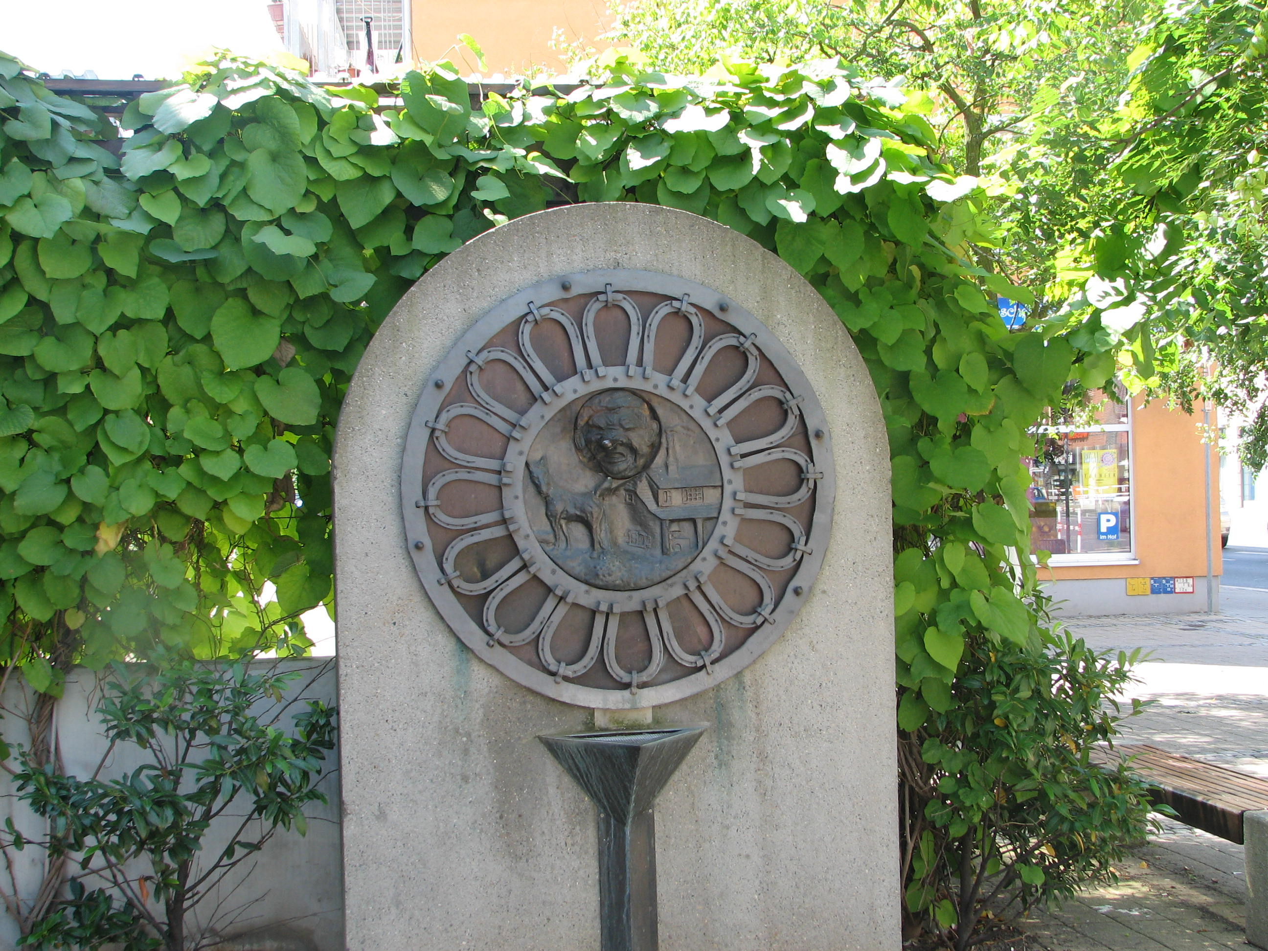 Image of "Die Freitaler Nase" (fountain)